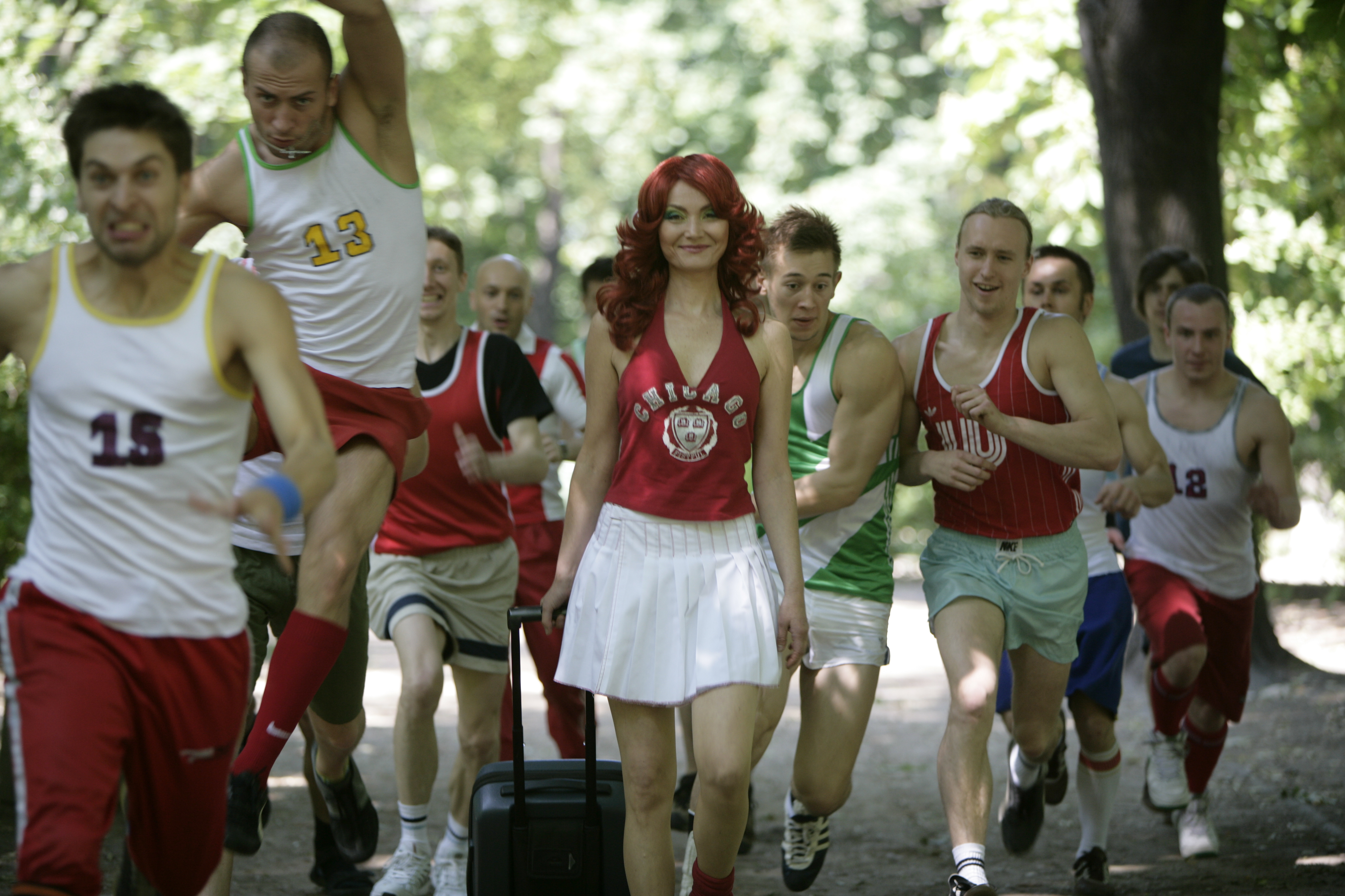 "Cheerleaderka/Cheerleader" by Katarzyna Kozyra from the permanent collection of Zachęta National Gallery of Art (Warsaw, Poland)